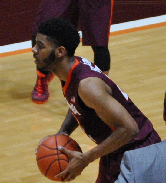 Jalen Hudson holds the ball for the Hokies